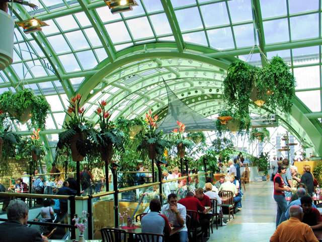 The winter garden with restaurant on top level of KaDeWe department store in Berlin